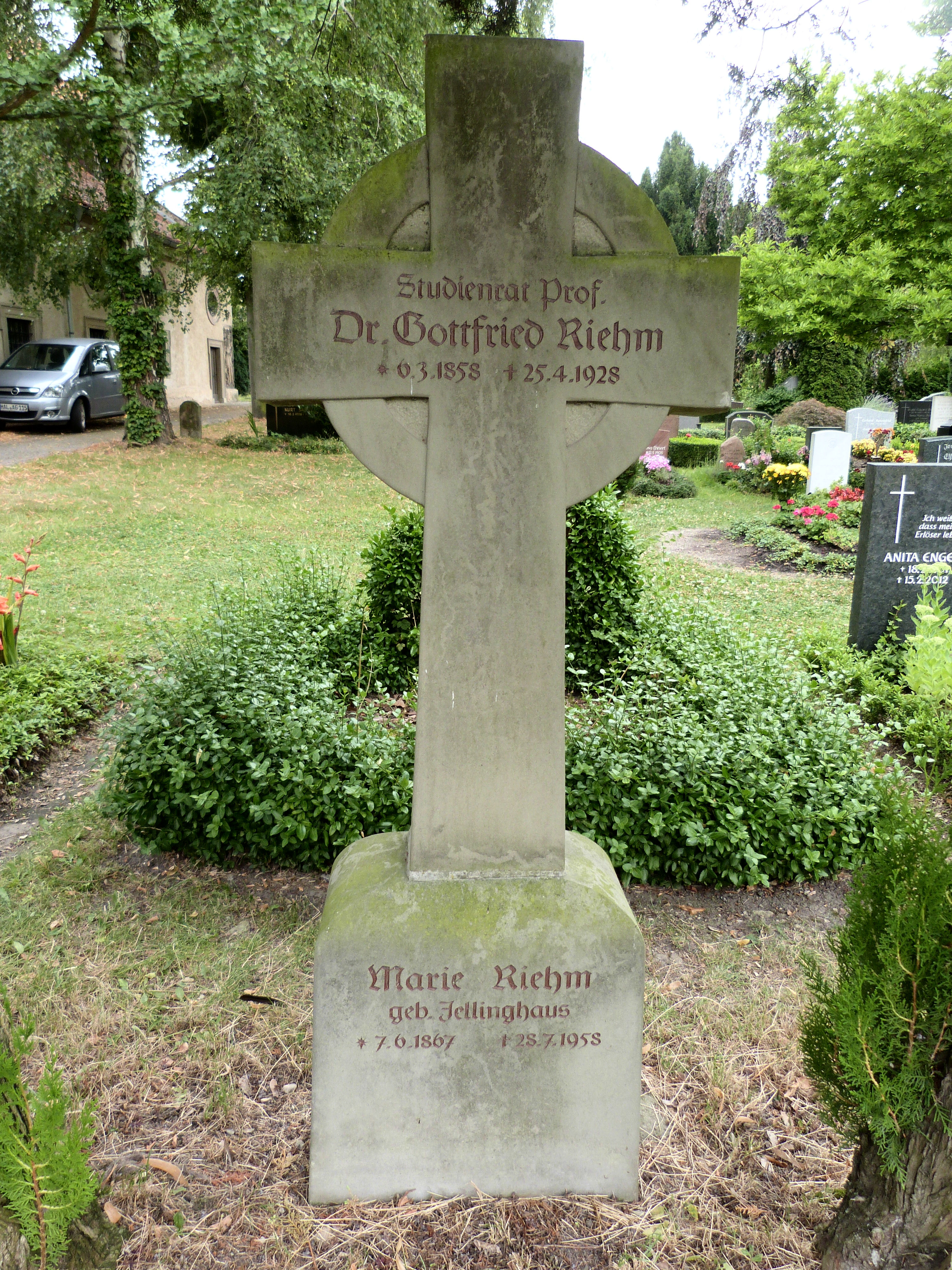 Grave stone for Gottfried Riehm, St. Lawrence cemetery, Halle (Saale), Am Kirchtor